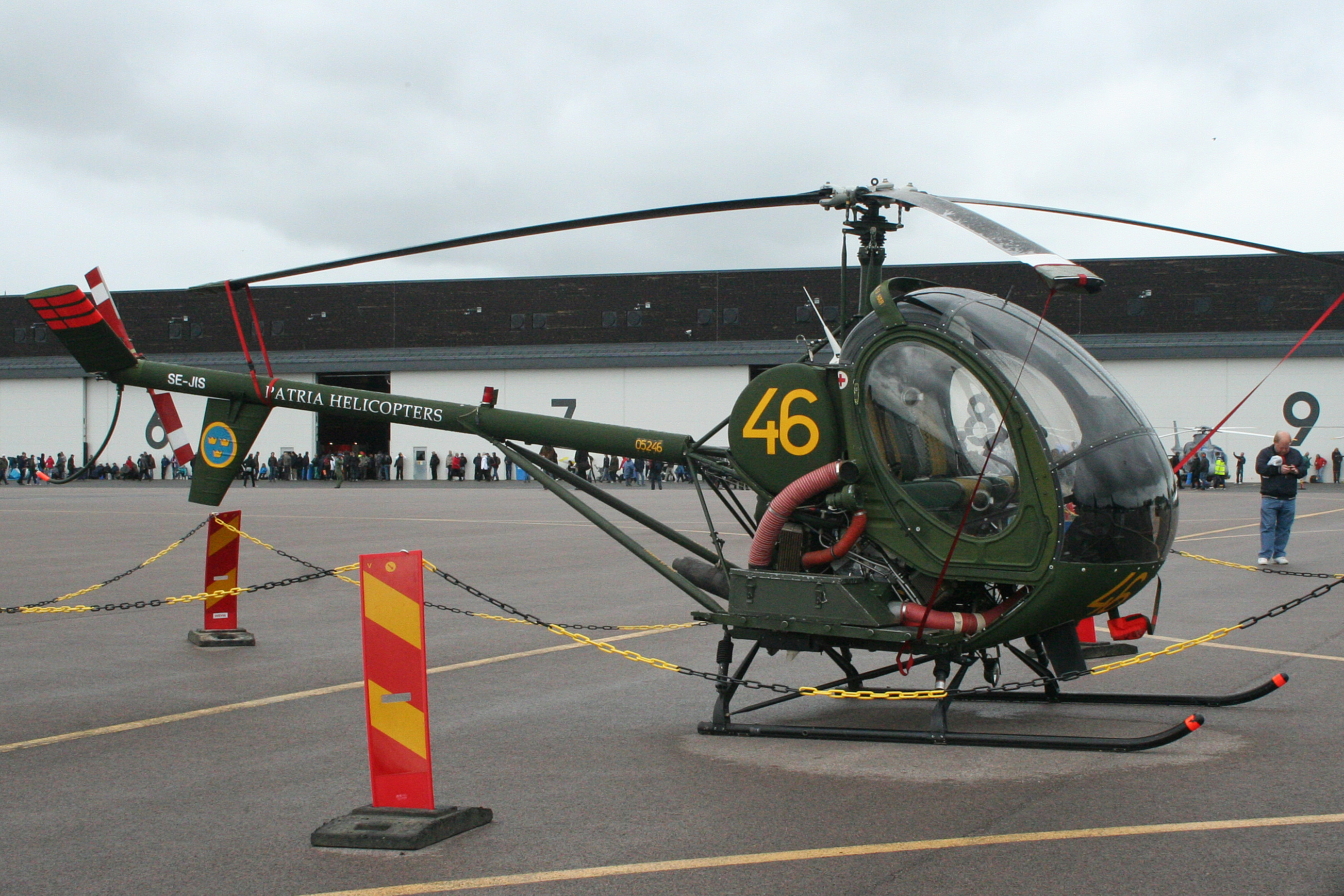 This is one of a small number of aircraft operated by the Flyvapenmuseum. It is in genuine military markings. msn 1270. On static display at the 2012 Malmen Airshow. Malmen, Sweden. 03-06-2012